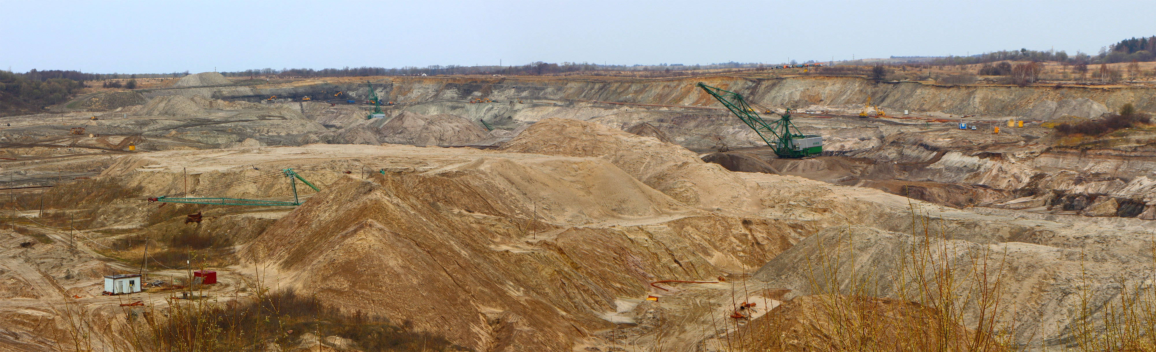 Baltic amber. Amber deposit "Primorskoe" in Jantarny (Palmnicken).